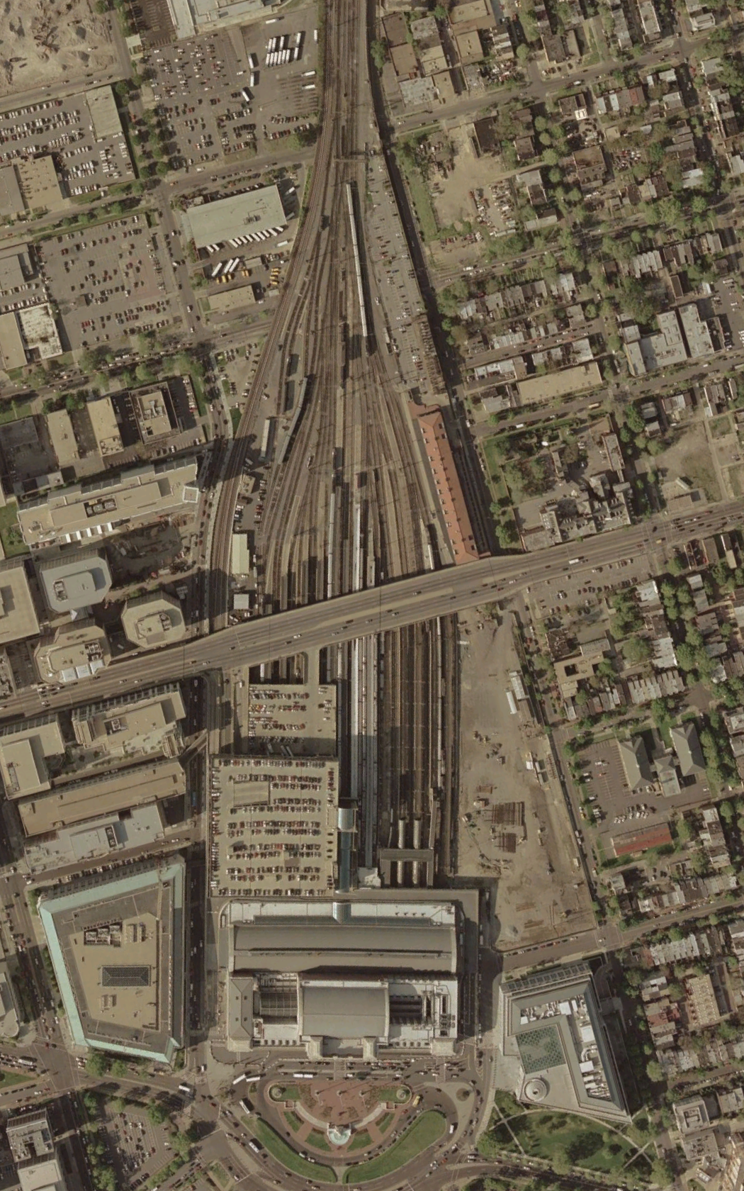 NASA World Wind screenshot: USGS satellite image of Union Station.